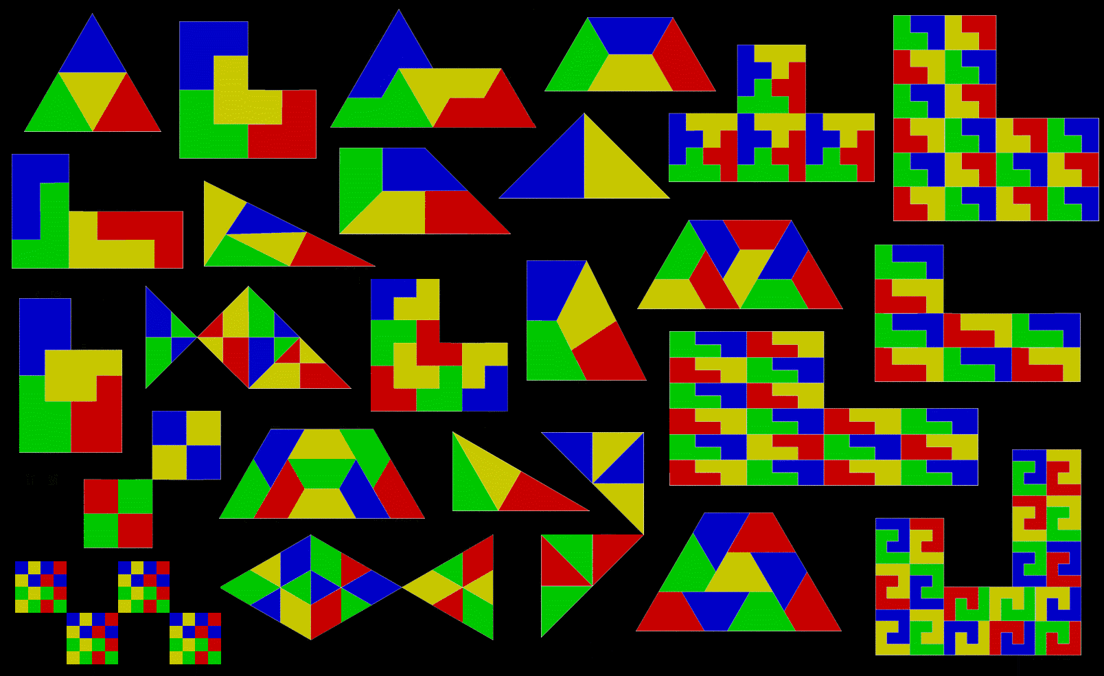 A selection of rep-tiles, or polygons that can be completely divided into smaller copies of themselves